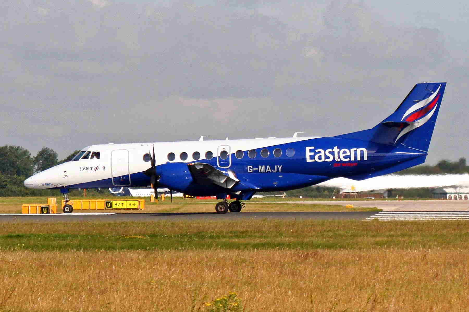 A picture of an airplane (name of it is on the file name).